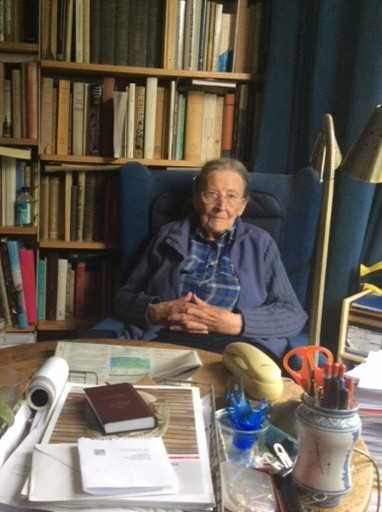 Joyce Reynolds still working at 97